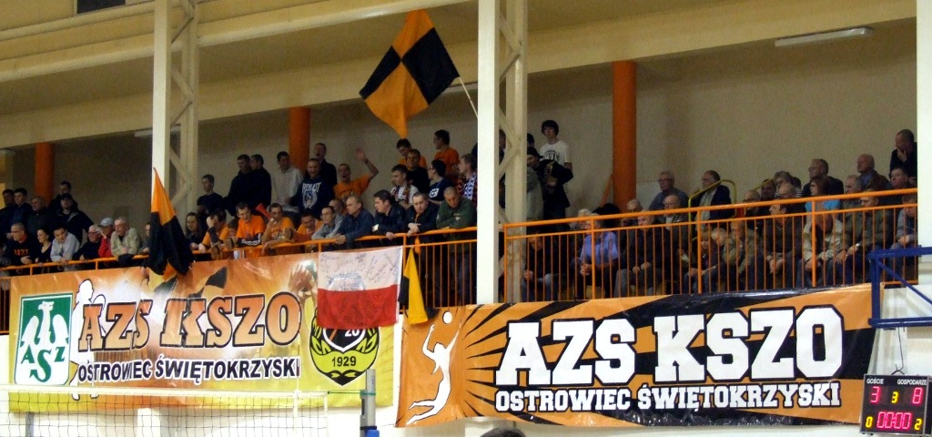 Supporters of AZS WSBiP KSZO Ostrowiec Swietokrzyski